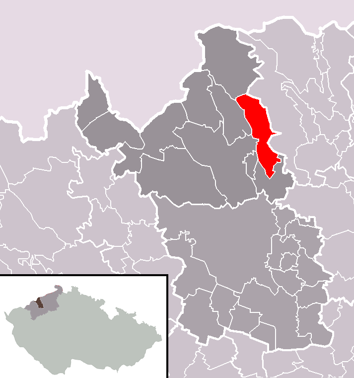 Location of Lom town within Most District and administrative area of Litvínov as a Municipality with Extended Competence.